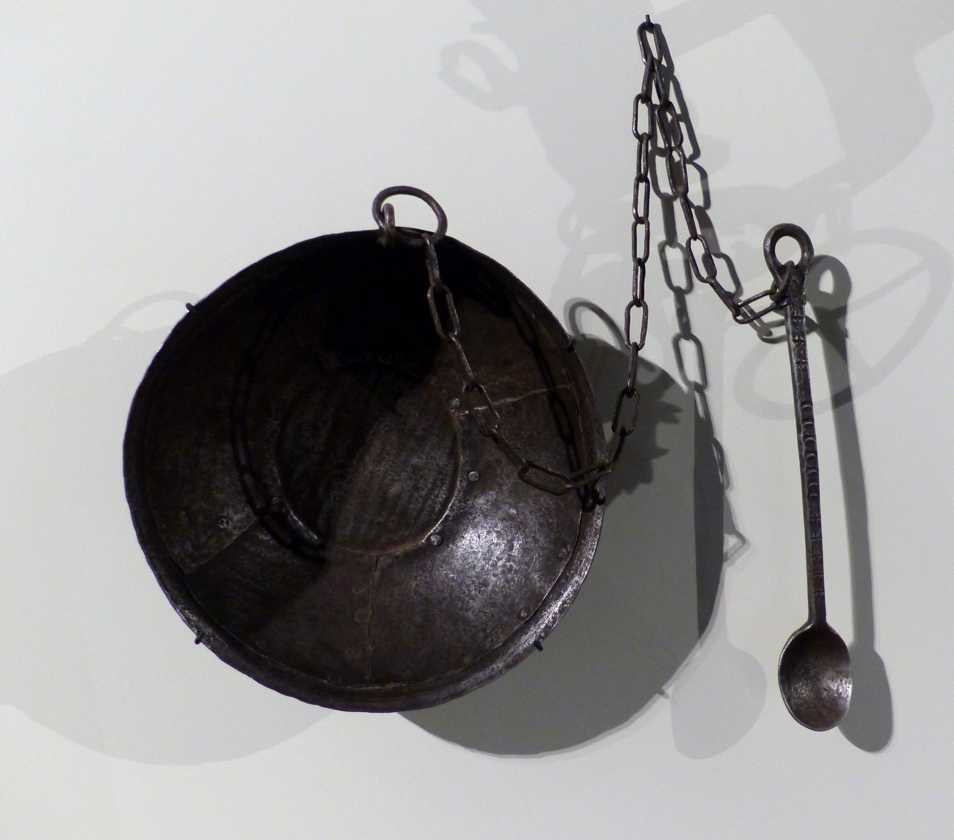 Asten ( Upper Austria ). Paneum ( Bread museum ) - Metal dish for the Last Meal ( 17th/18th century )